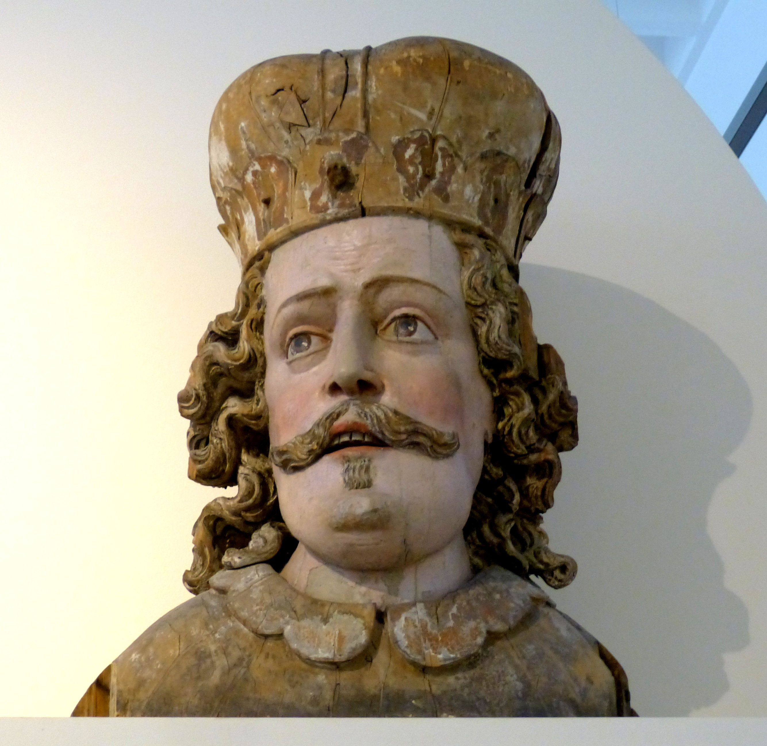 Straubing ( Lower Bavaria ). Gäubodenmuseum: Bust of Saint Tiburtius ( 17th century ), from the former baroque high altar of Saint James church ( Straubing )